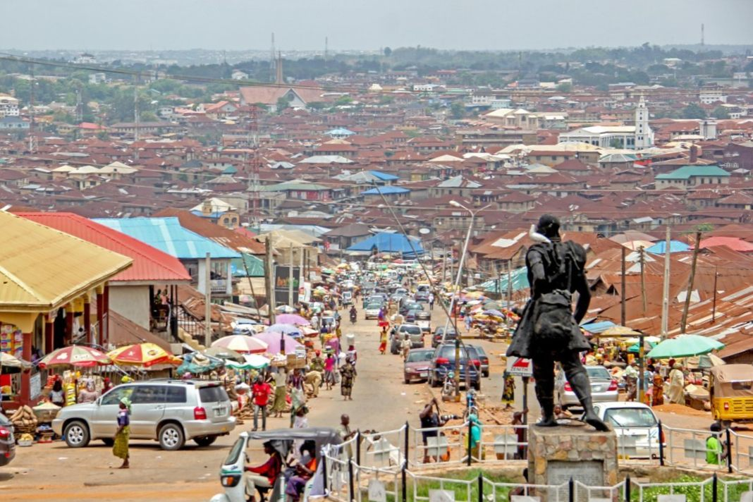 Ibadan with Oluyole statue, Nigeria